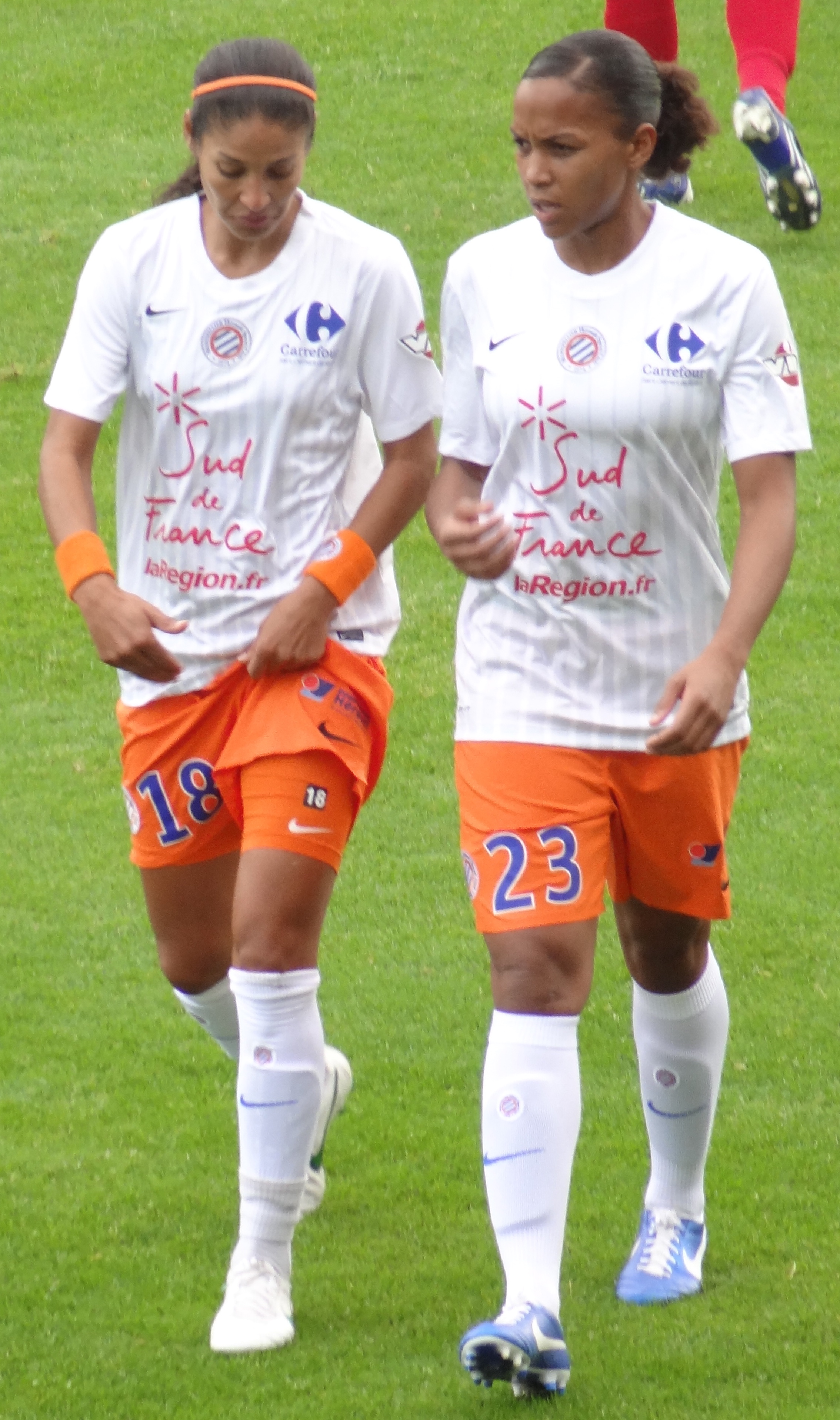 Hoda Lattaf & Marie-Laure Delie (Montpellier)